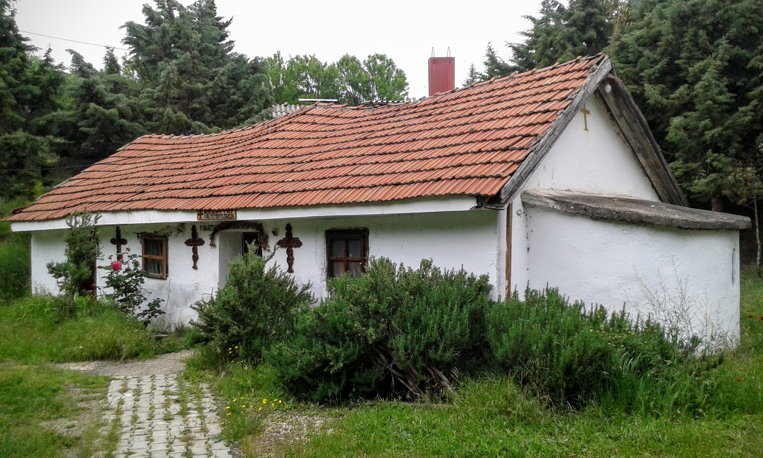 Nativity of the Theotokos Church in Stopanski Dvor